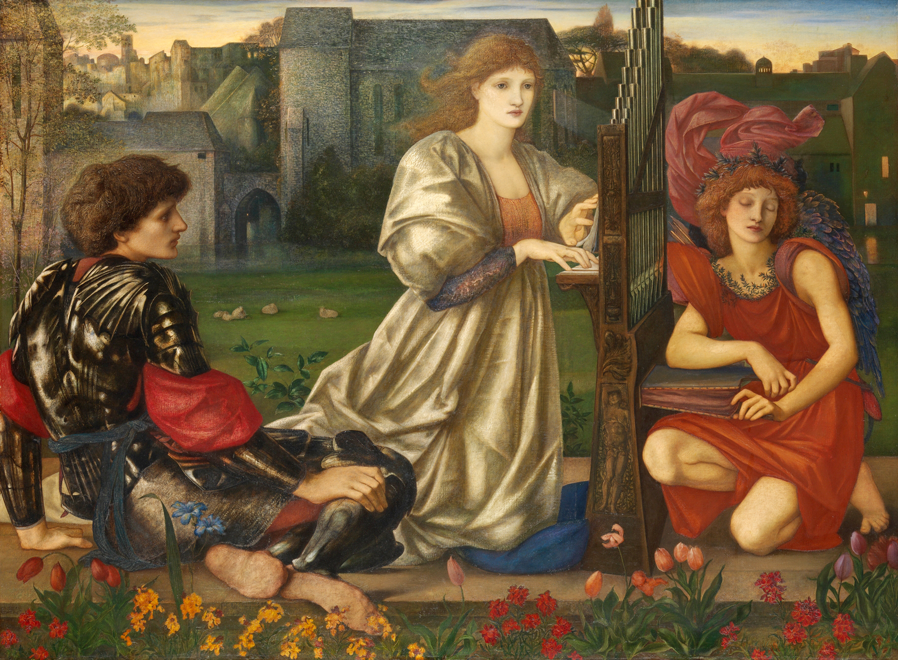 Chant d'Amour (c. 1868-73) by Edward Burne-Jones, Metropolitan Museum of Art